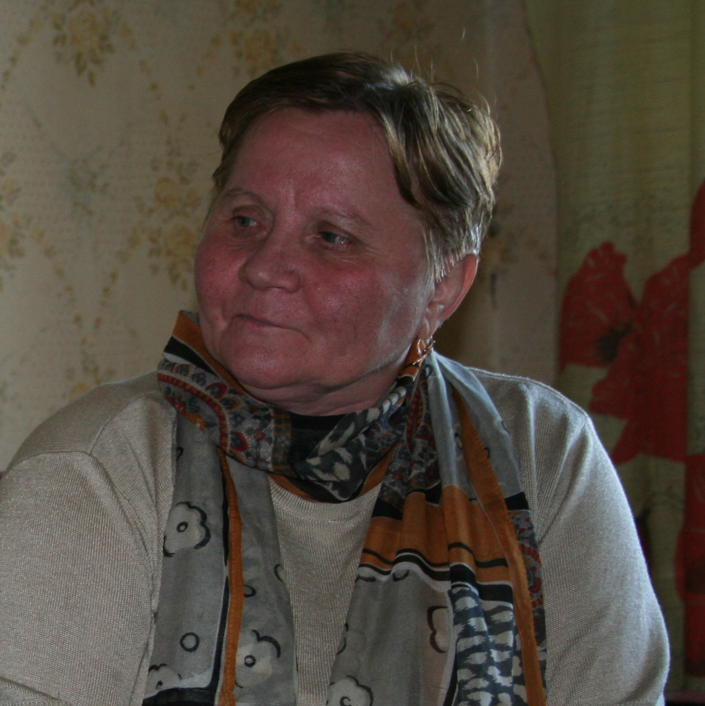 Nina Afanasyeva (right) interviewing Zoya Gerasimova (one of last Ter Sami speakers) in Murmansk (July 2006; Photo: Michael Rießler)